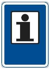 Road sign of the Czech Republic